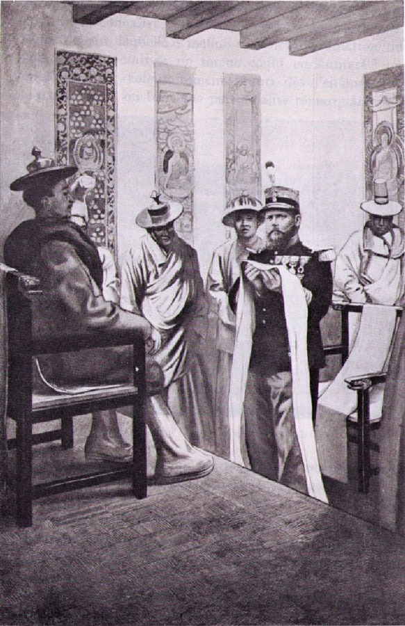 Count Henri d’Ollone in audience with the Dalai Lama at Wutai Shan